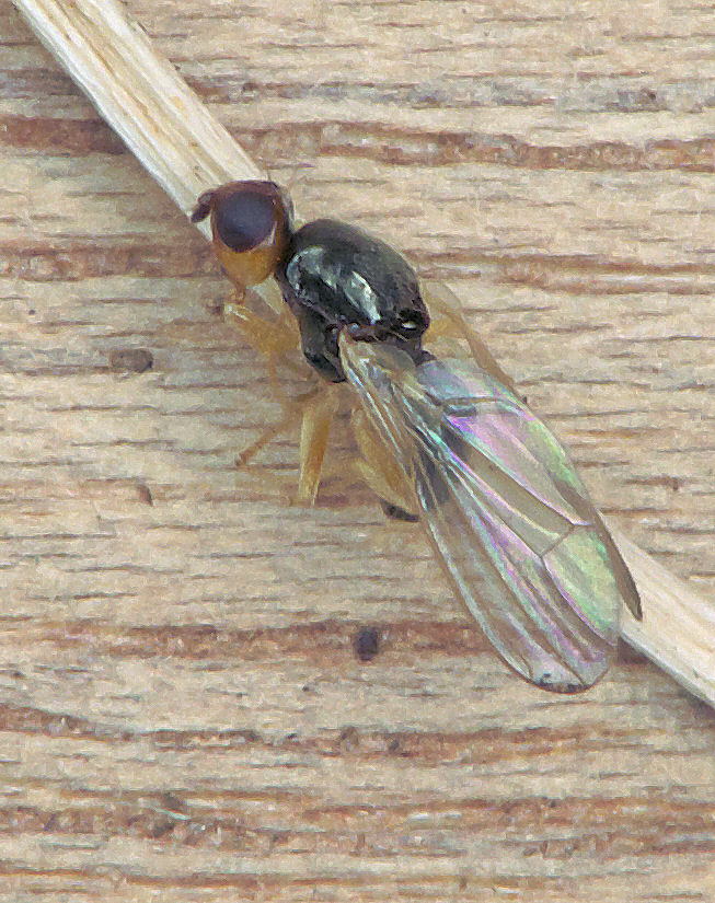 Chamaepsila rosae, 5-6 mm long